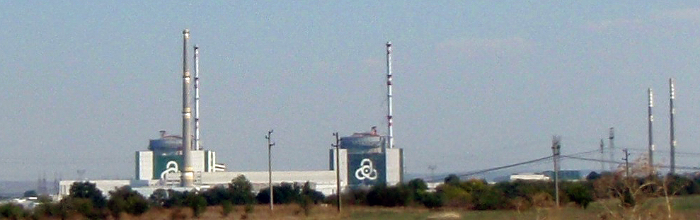 Kozloduy Power Plant in Bulgaria